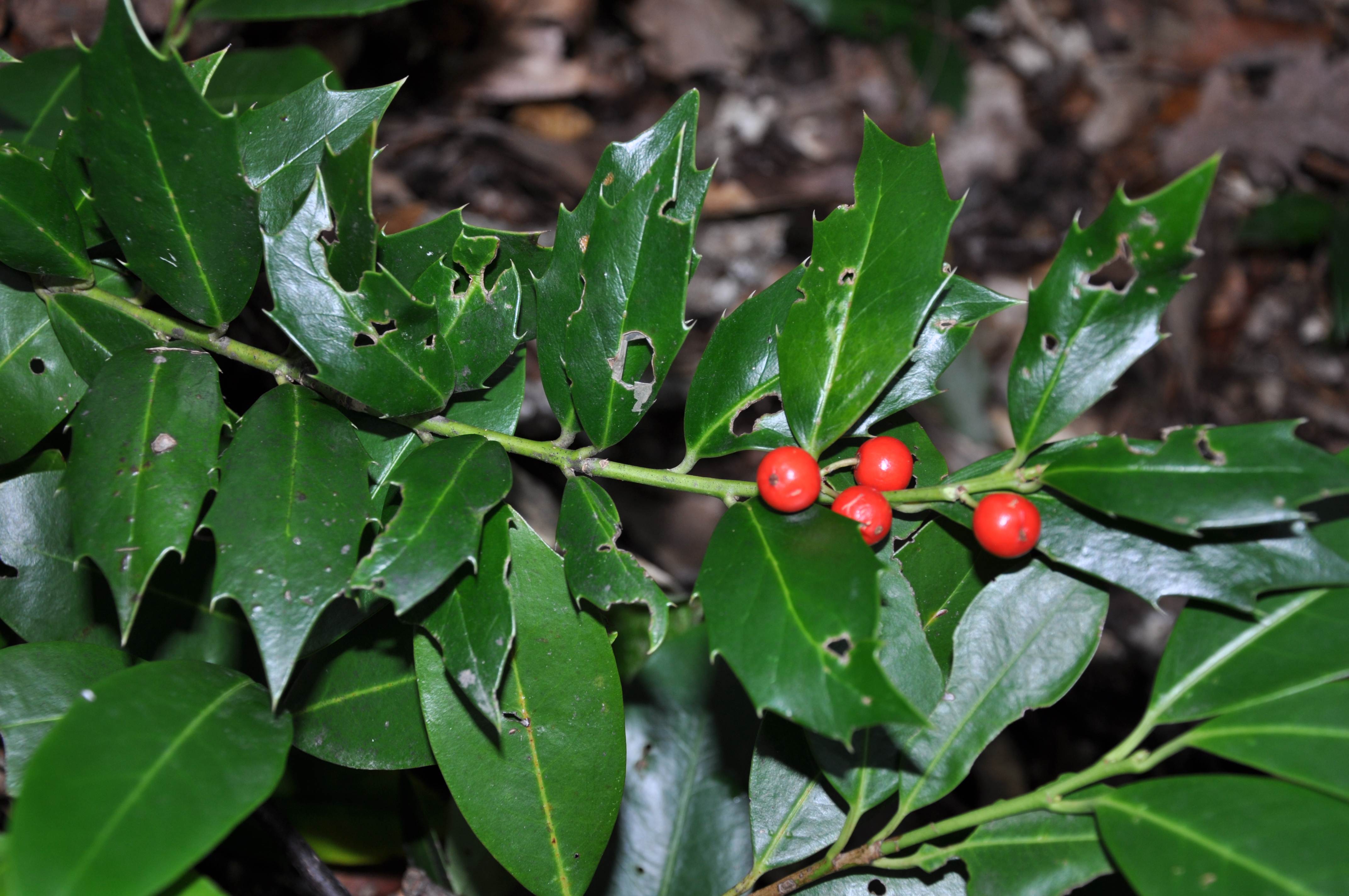 Taken in Racha, Nakerala